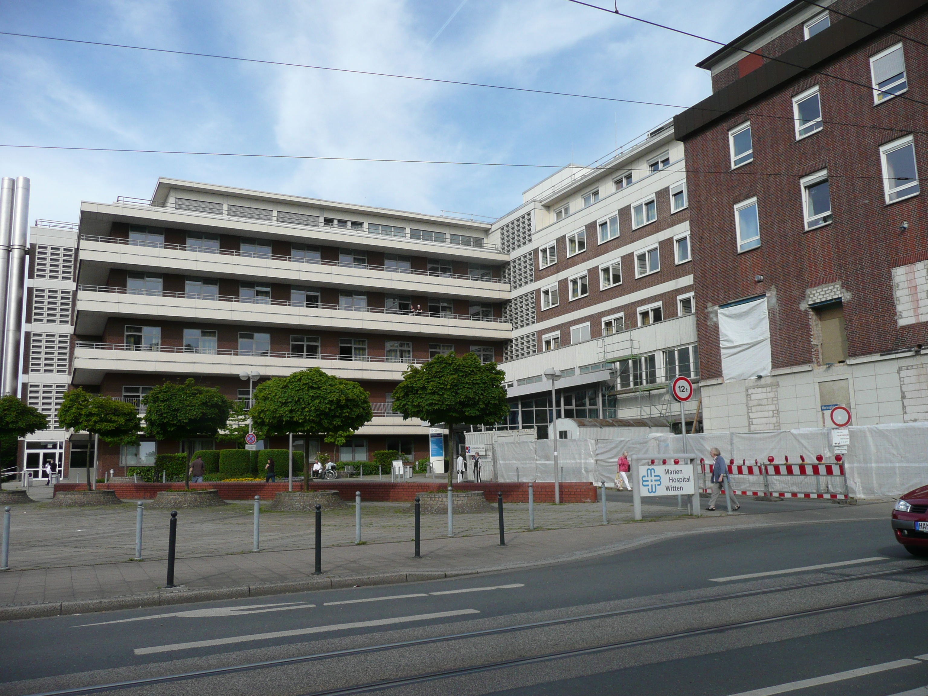 Roman catholic hospital Marienhospital in Witten, Germany